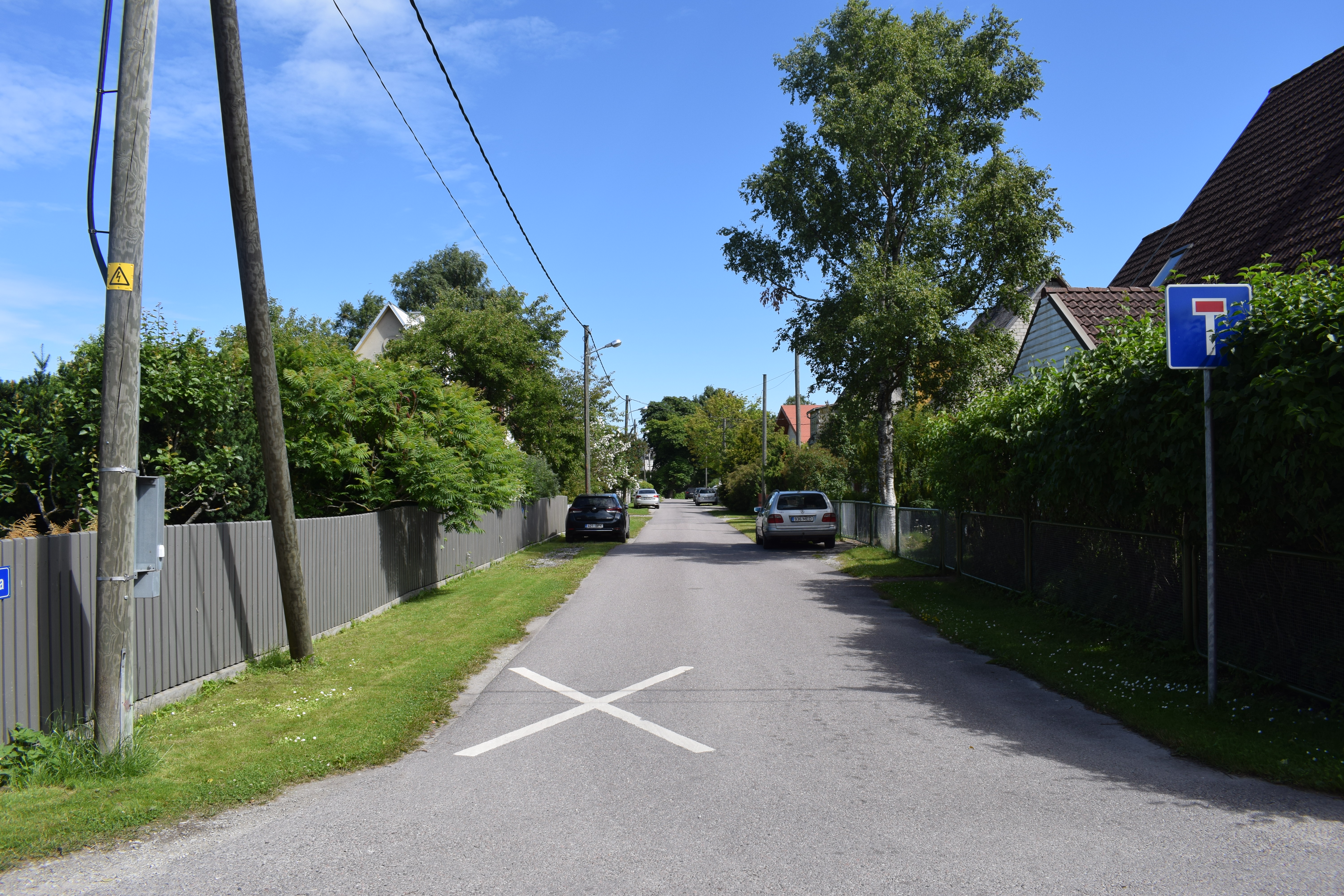 Saarma street